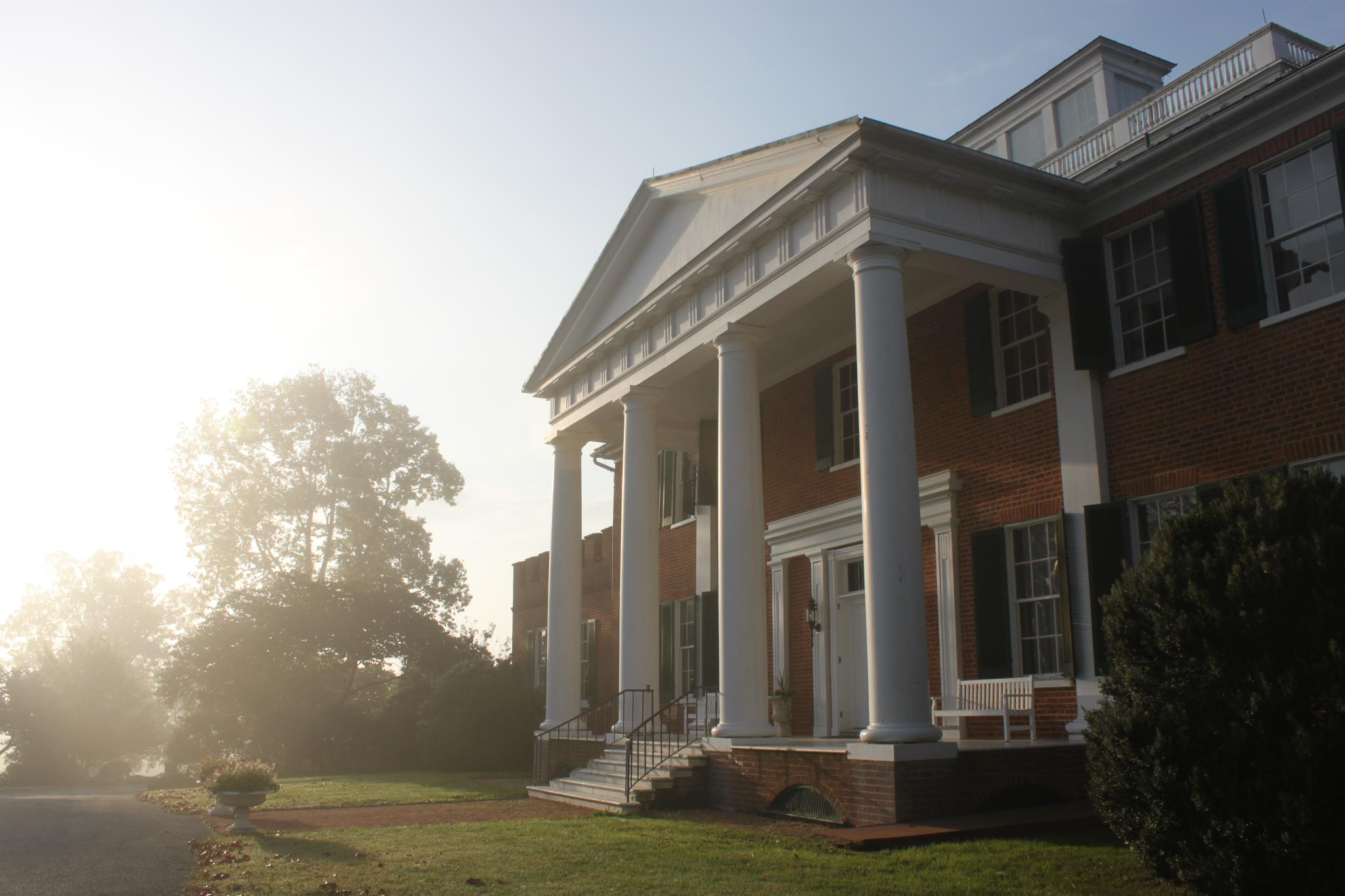 North Side of Long Branch Plantation